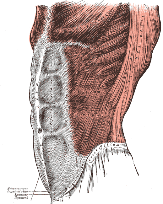 Anatomic diagram